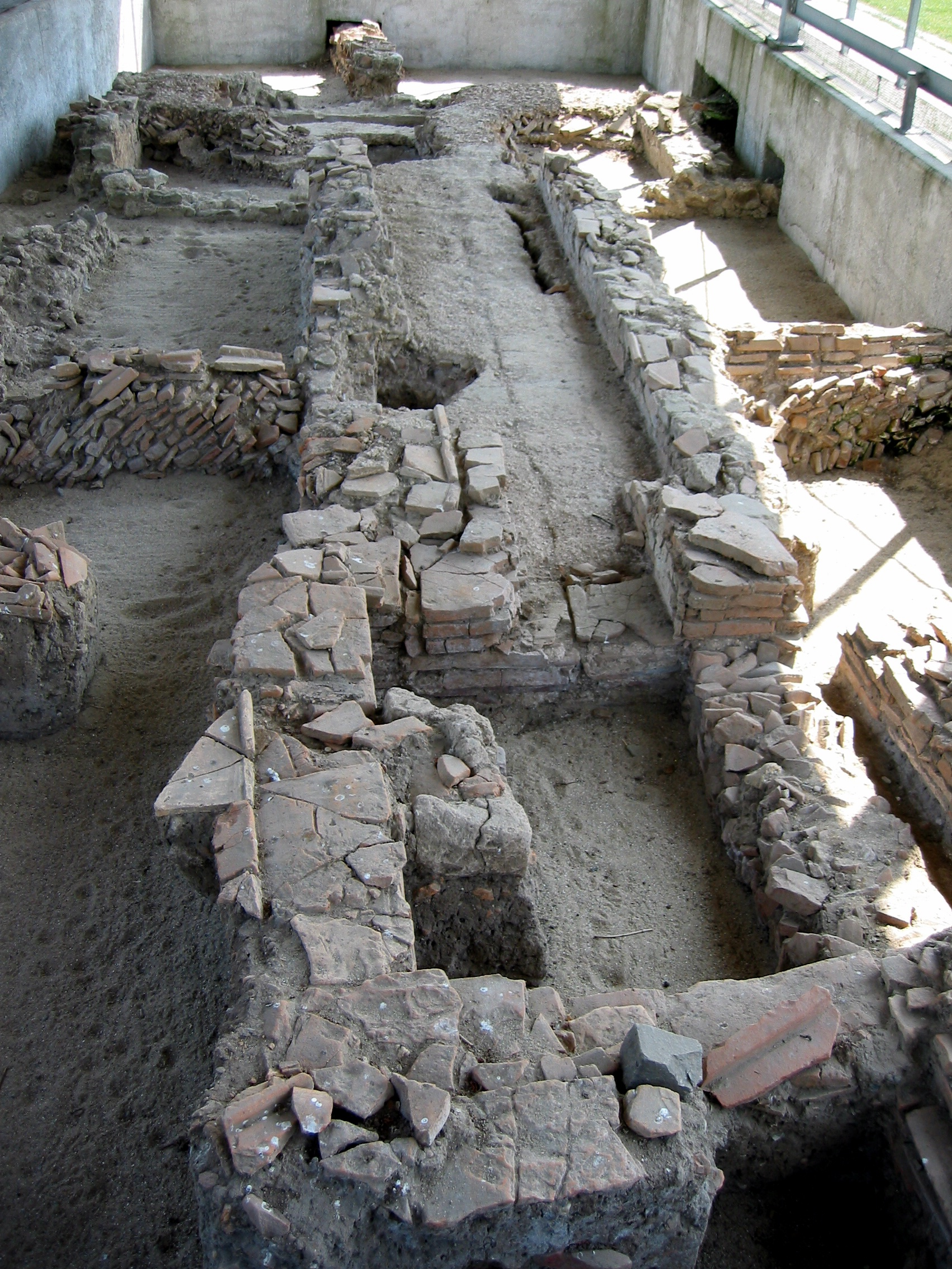 Photo taken April 23, 2005, by Magnus Manske, with expressed verbal permission. Colors/contrast enhanced with Picasa.